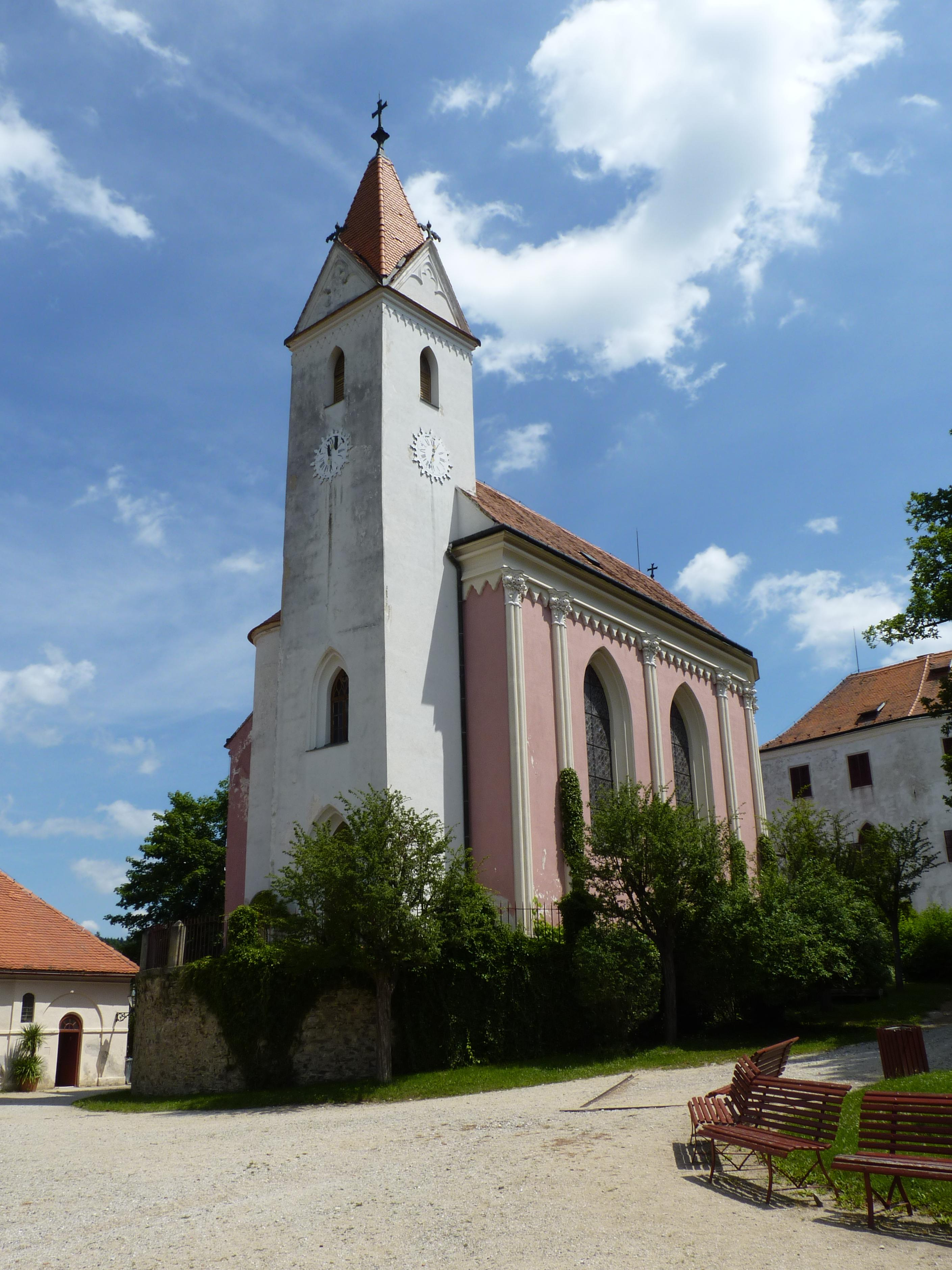 Bítov Castle, Znojmo District, South Moravian Region, Czech Republic